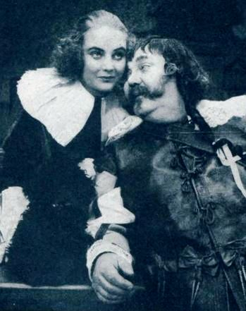 Still from the Swedish film En lyckoriddare (1921) with Mary Johnson and Axel Ringvall, published for its U.S. release under the title A Gay Knight on page 51 of the April 1922 Film Fun.